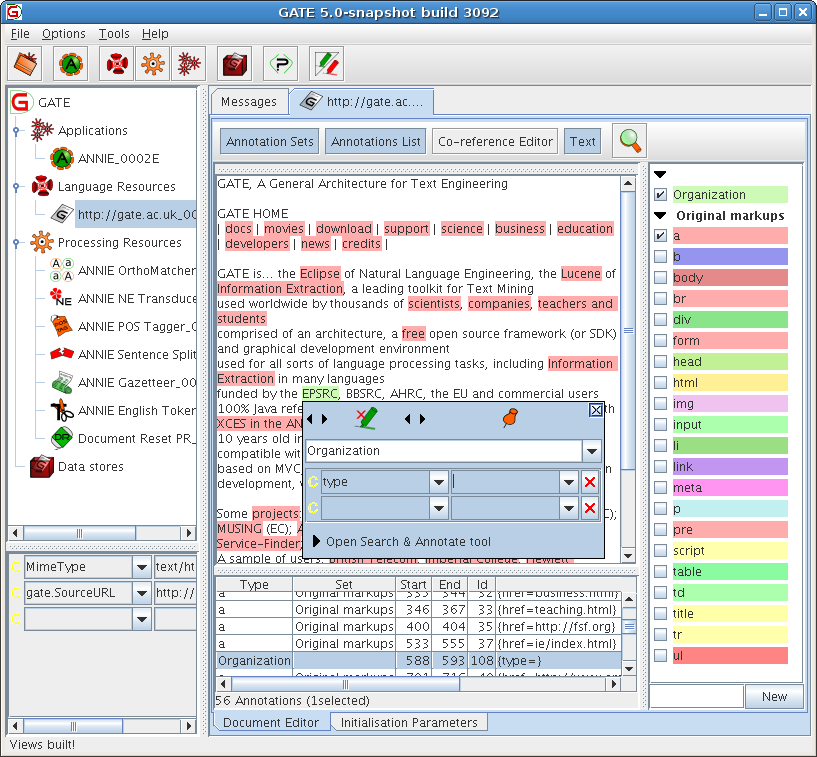 Main window of GATE software